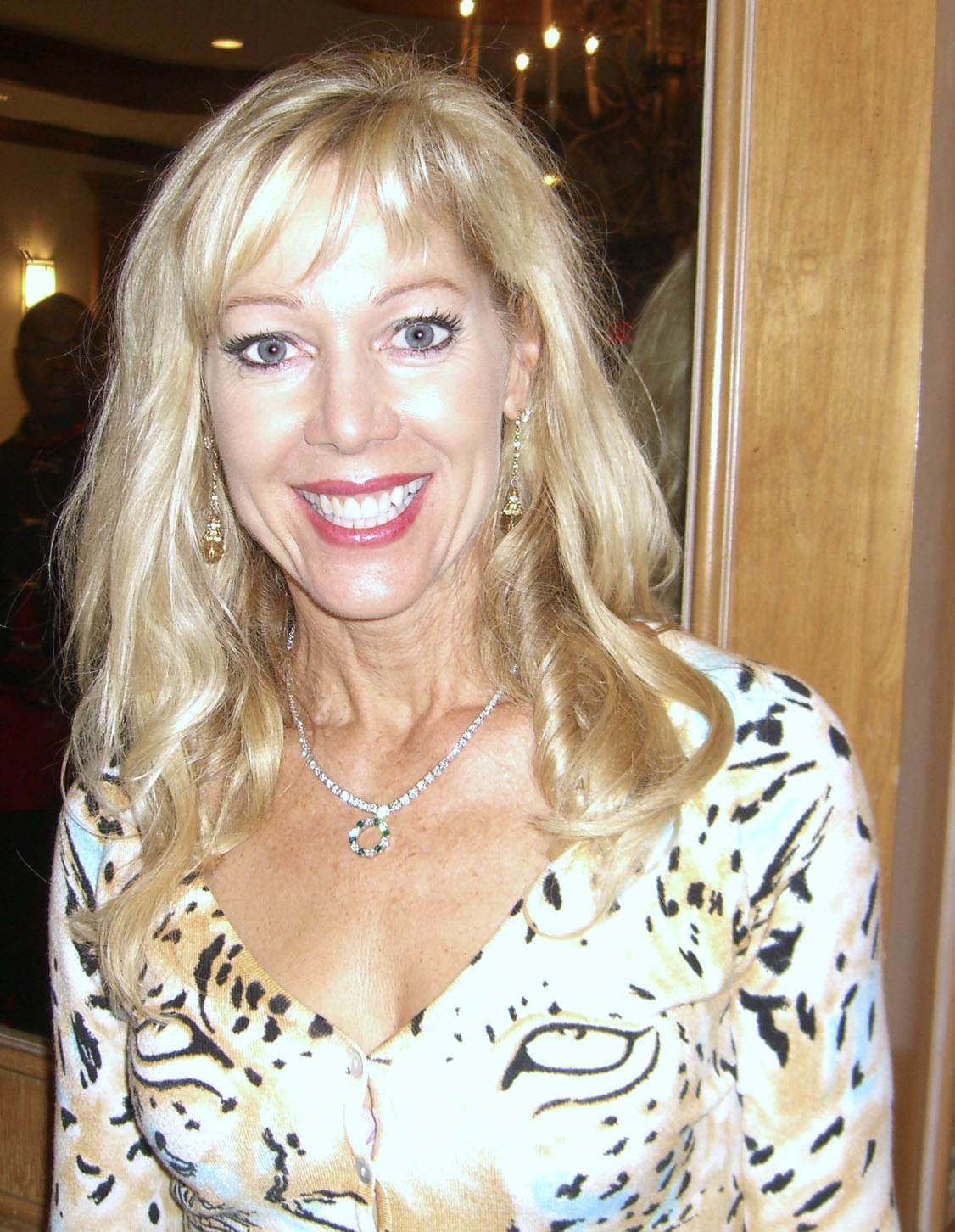 Actress Lynn-Holly Johnson at the November 2008 Big Apple Convention in Manhattan.